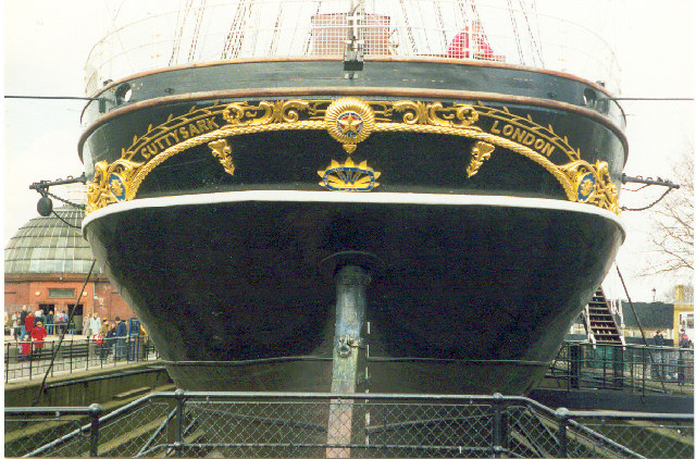 Greenwich. "CUTTY SARK", stern view.